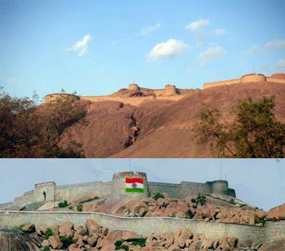 Bellary Fort